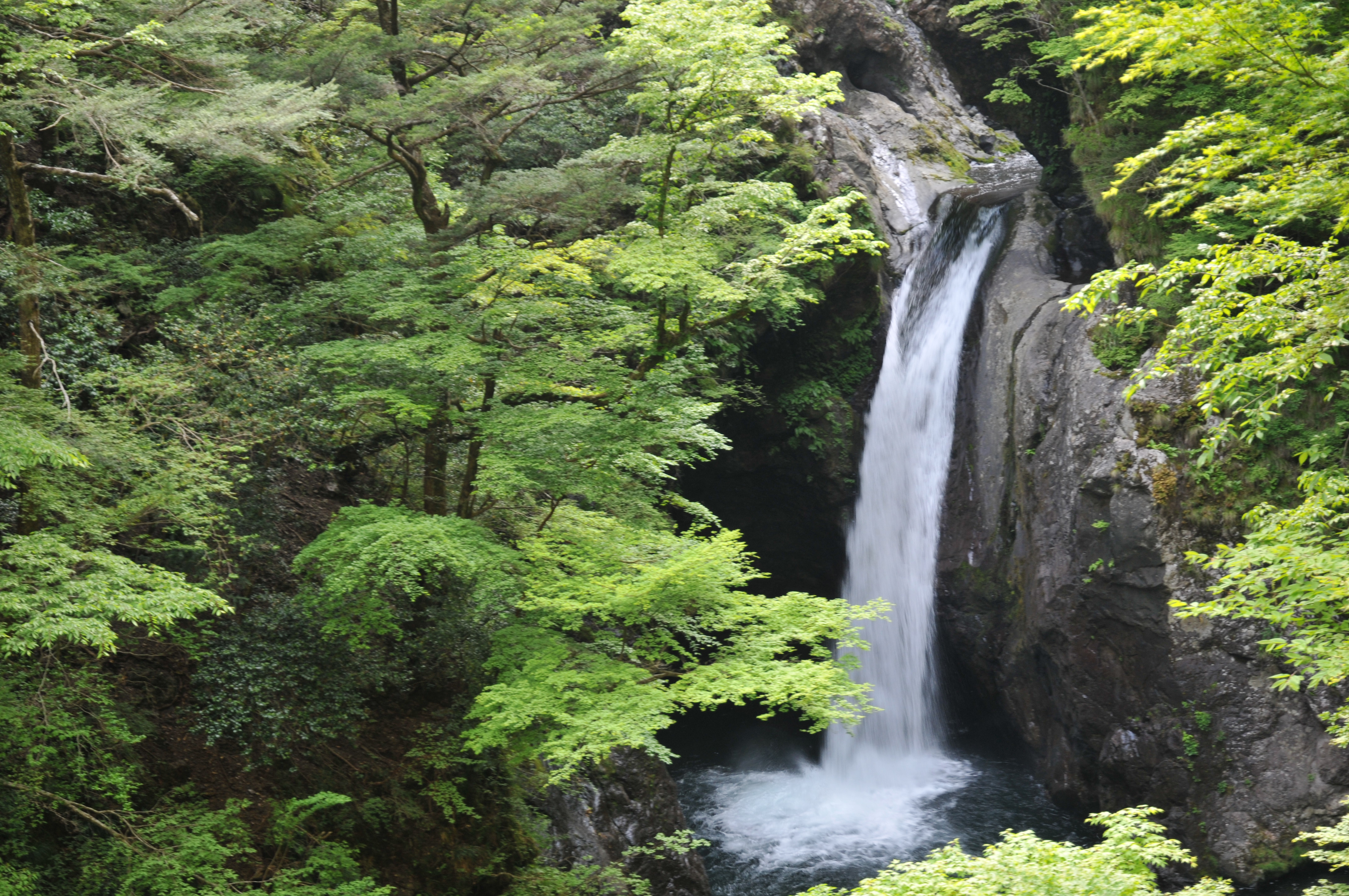 Ōgama falls